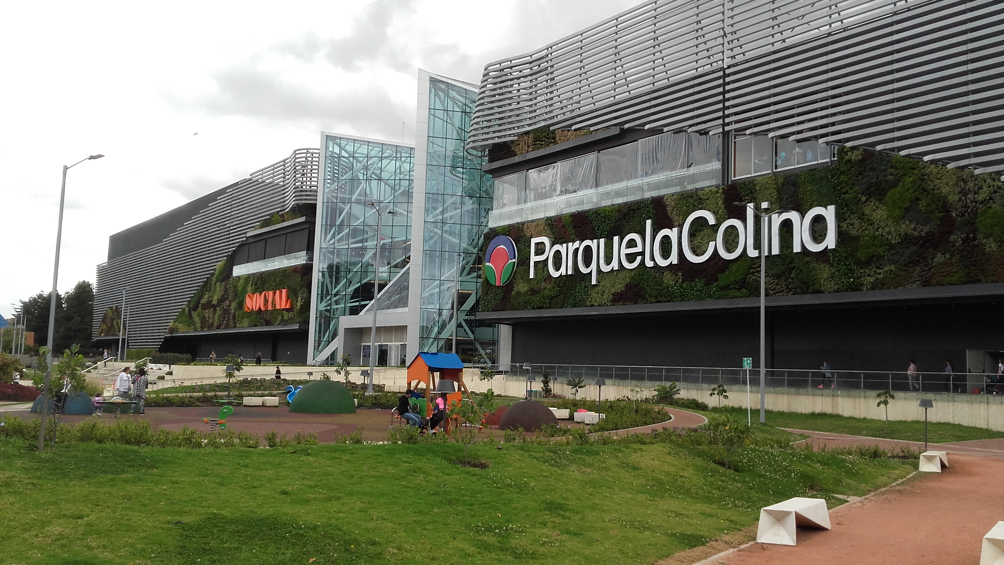 Parque La Colina mall